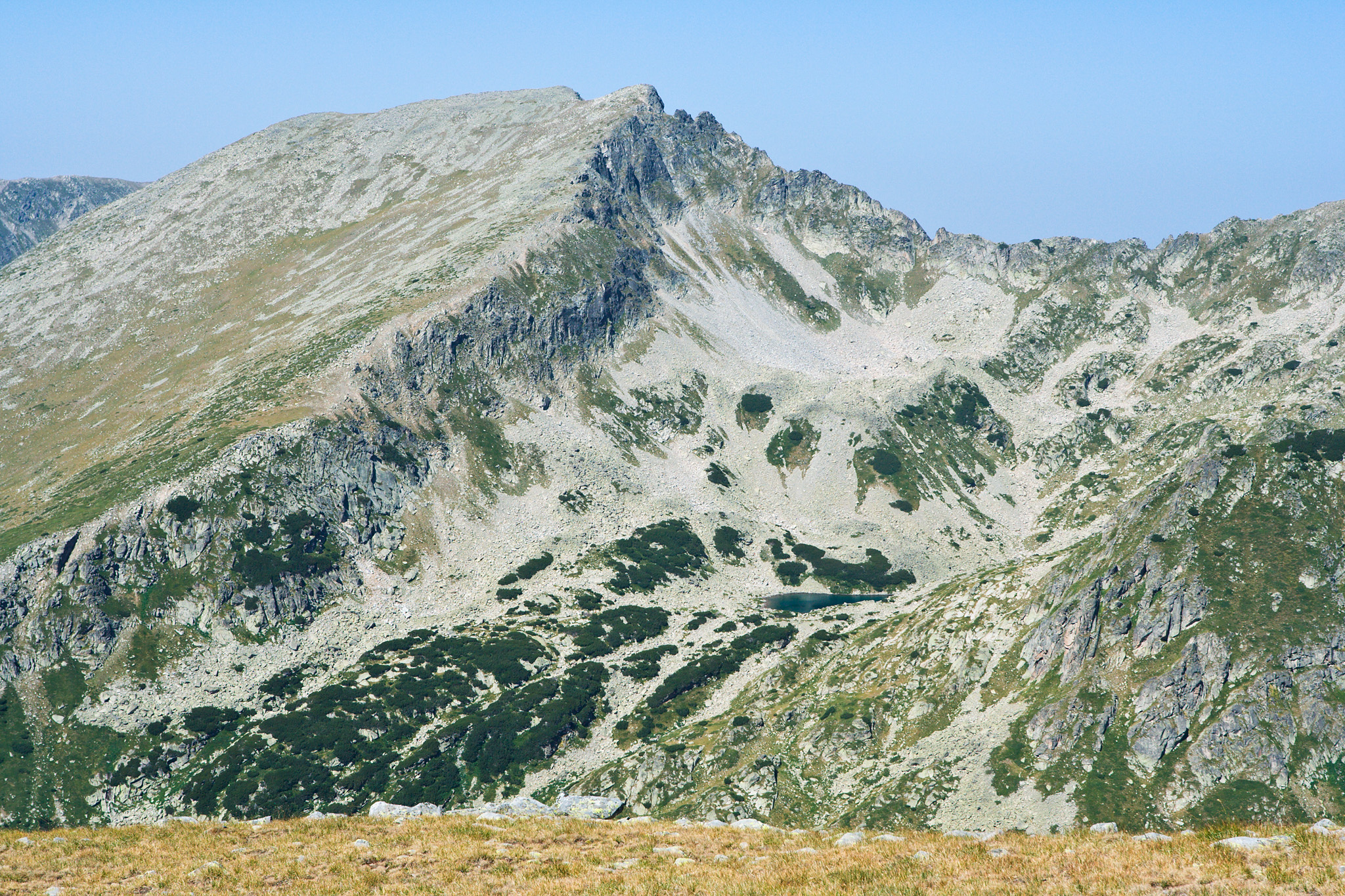 Ialovarnika peak, Pirin mountain, Bulgaria